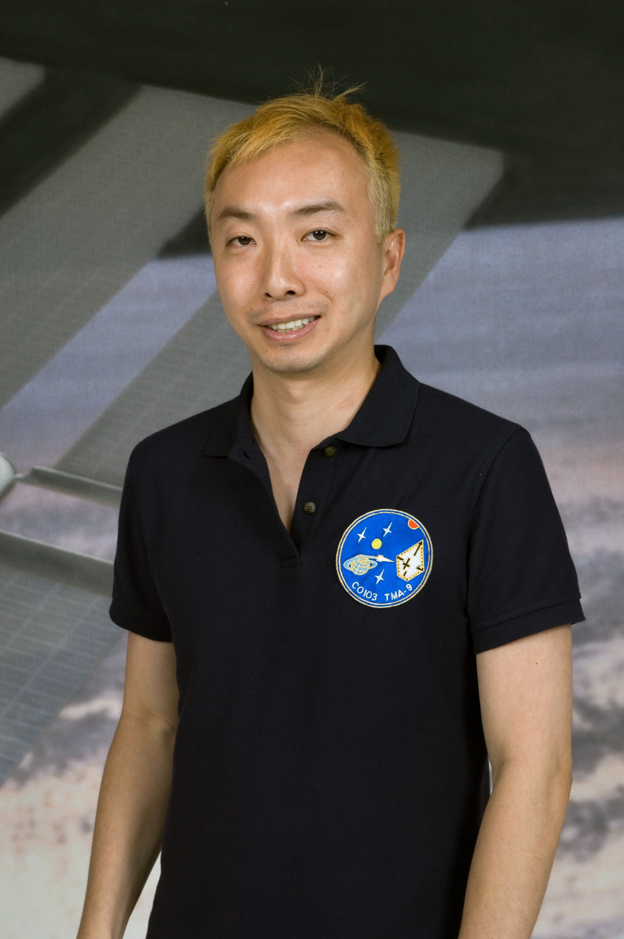 Spaceflight participant Daisuke Enomoto poses for a photograph following the Expedition 14 press conference at the Johnson Space Center.